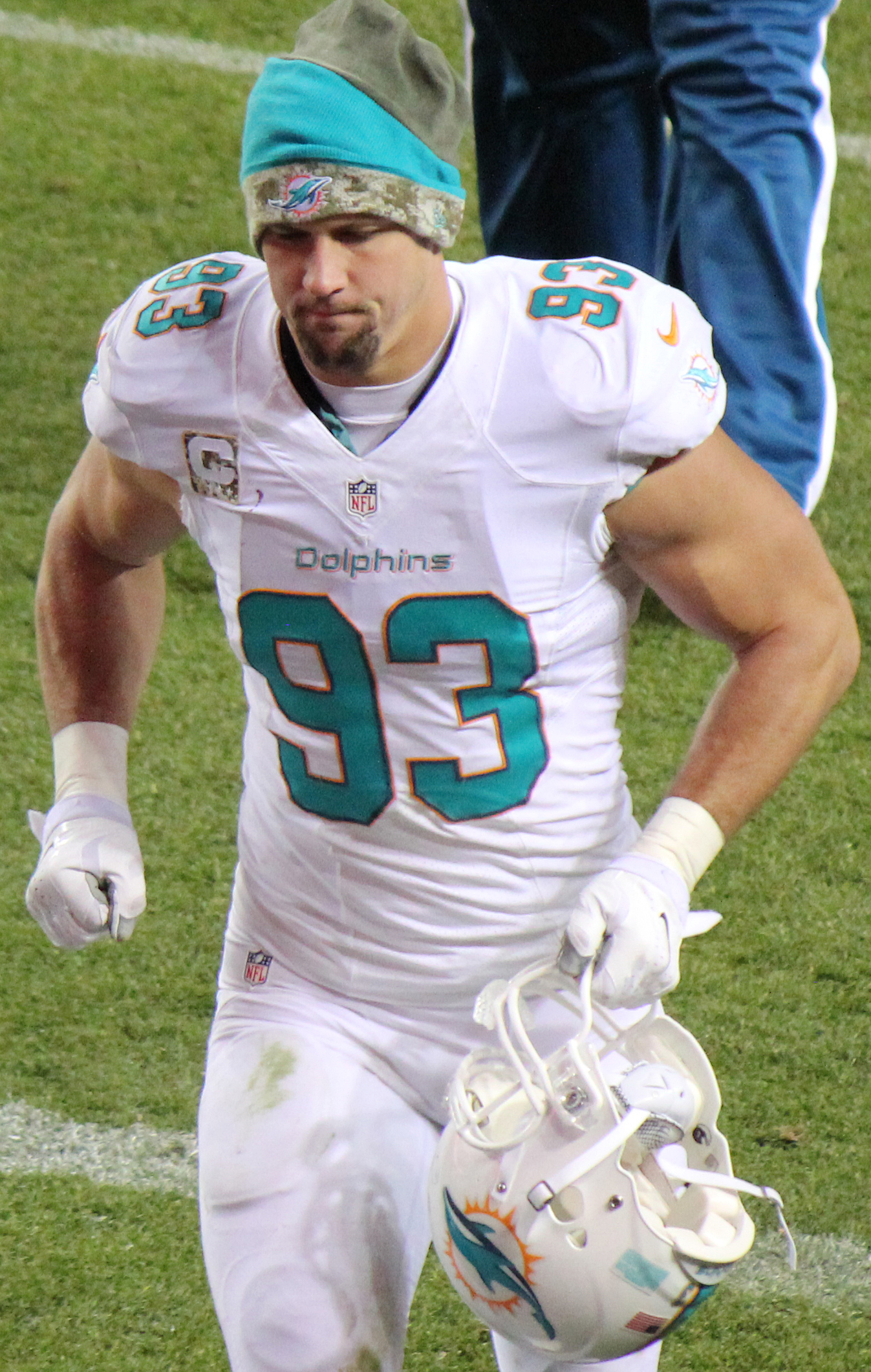 Jason Trusnik, a player on the National Football League.